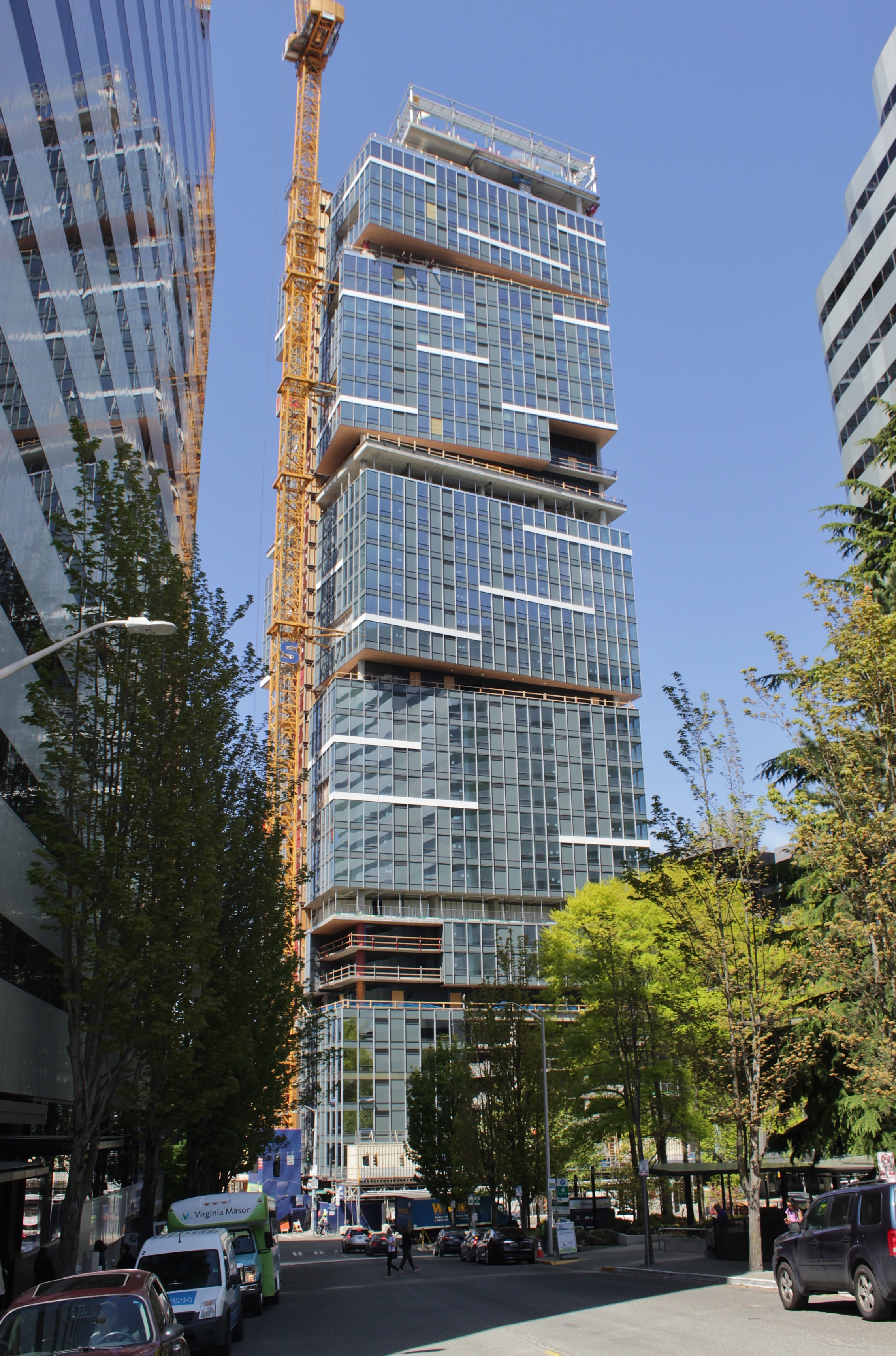 The Nexus condominium tower in Seattle, Washington, seen under construction in early May 2019.